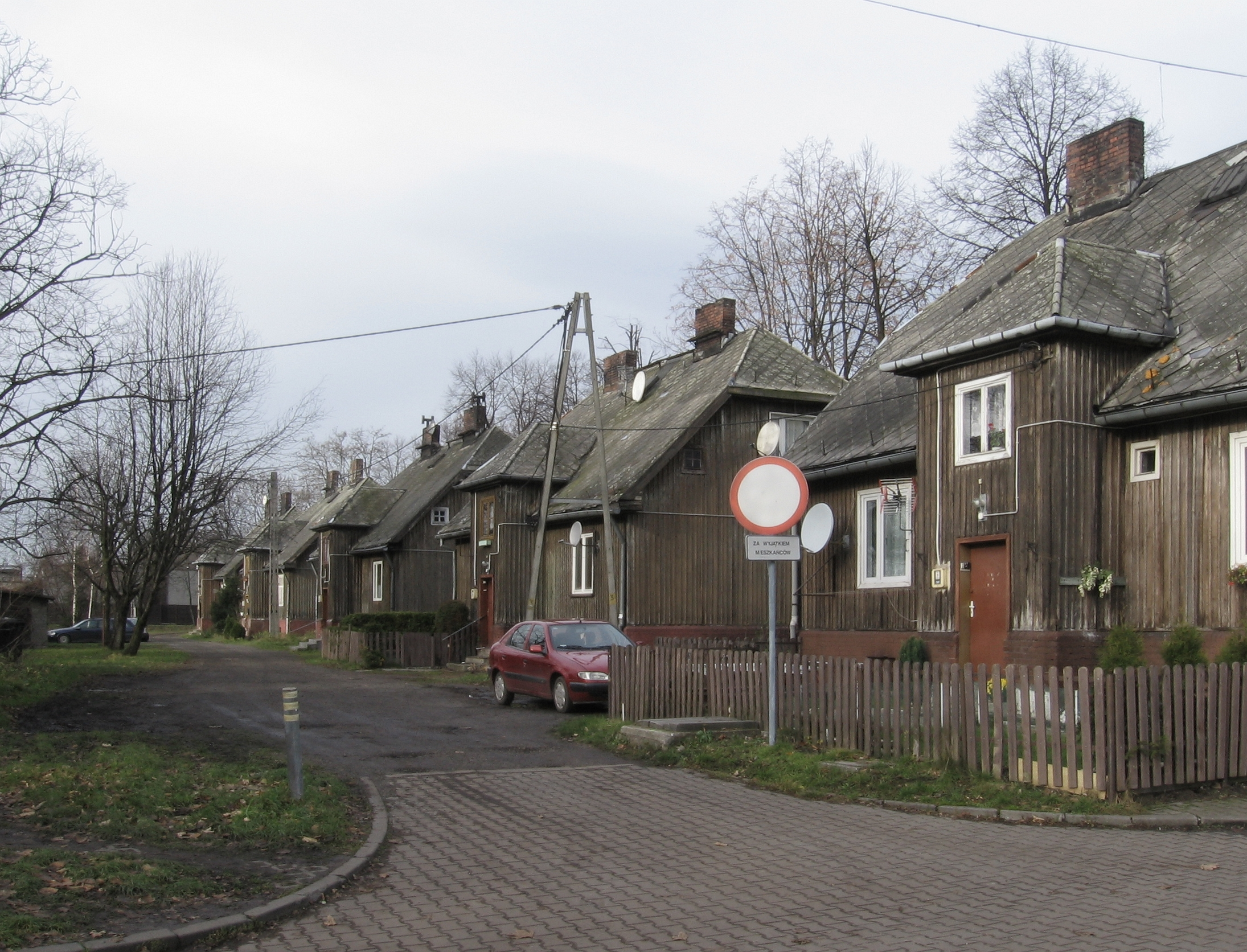 Five remaining houses on Chorzowska street in Świętochłowice-Piaśniki in Poland, built in ca. 1930 for workers of Matylda coal mine in Świętochłowice.